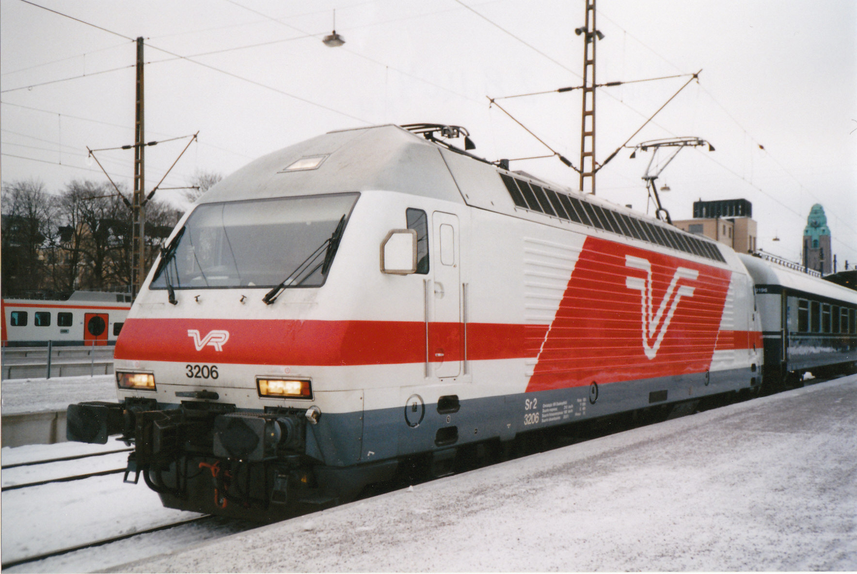 VR Class Sr2 electric locomotive (3206) at Helsinki Railway station.